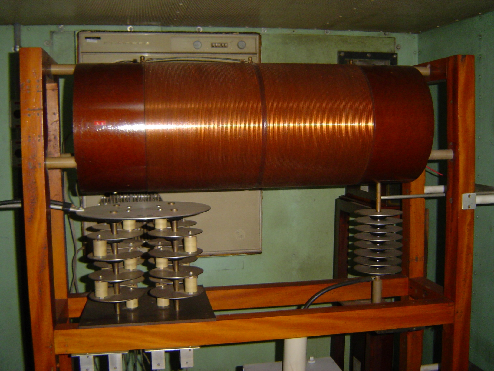 Tuned circuit of a very low frequency (VLF) ionospheric sounding transmitter in Brasil.